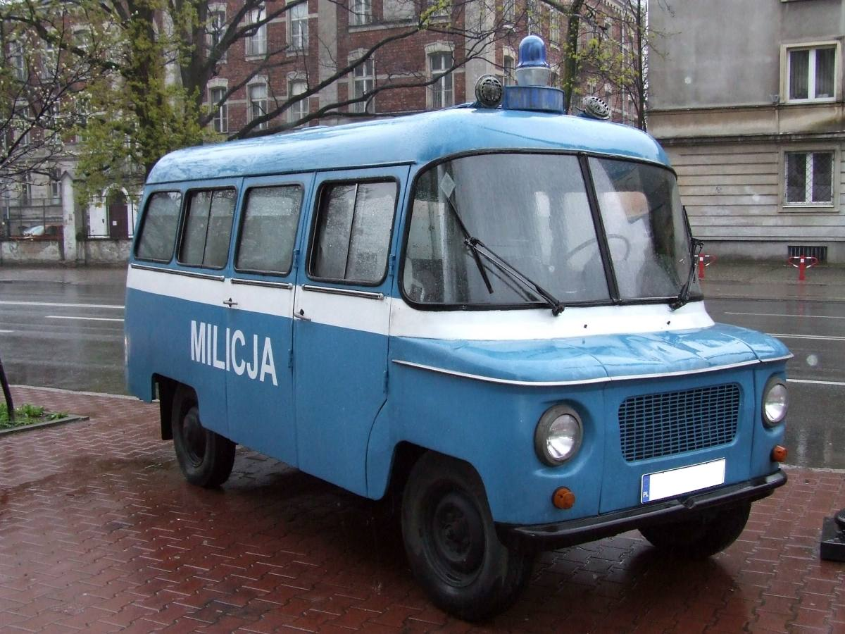 Nysa 522T on Rakowiecka Street in Warsaw, with Milicja Obywatelska markings (former Polish police formation of the communist period) - private van now on private car plates. This is not an original standard Milicja Nysa body version, rather an ambulance version (side windows are white to two thirds of thier height) painted in Milicja livery.